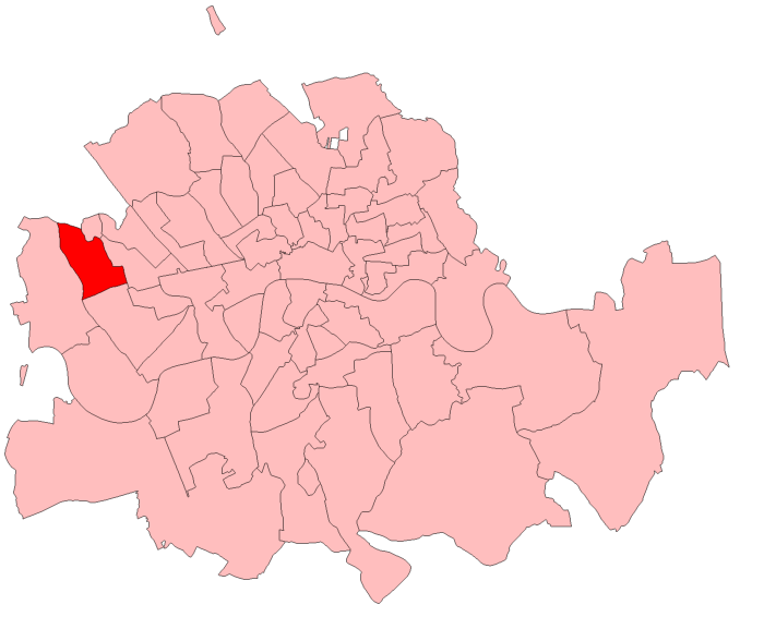 A map of Kensington North constituency within the Metropolitan Board of Works area, as it existed from 1885 to 1918.